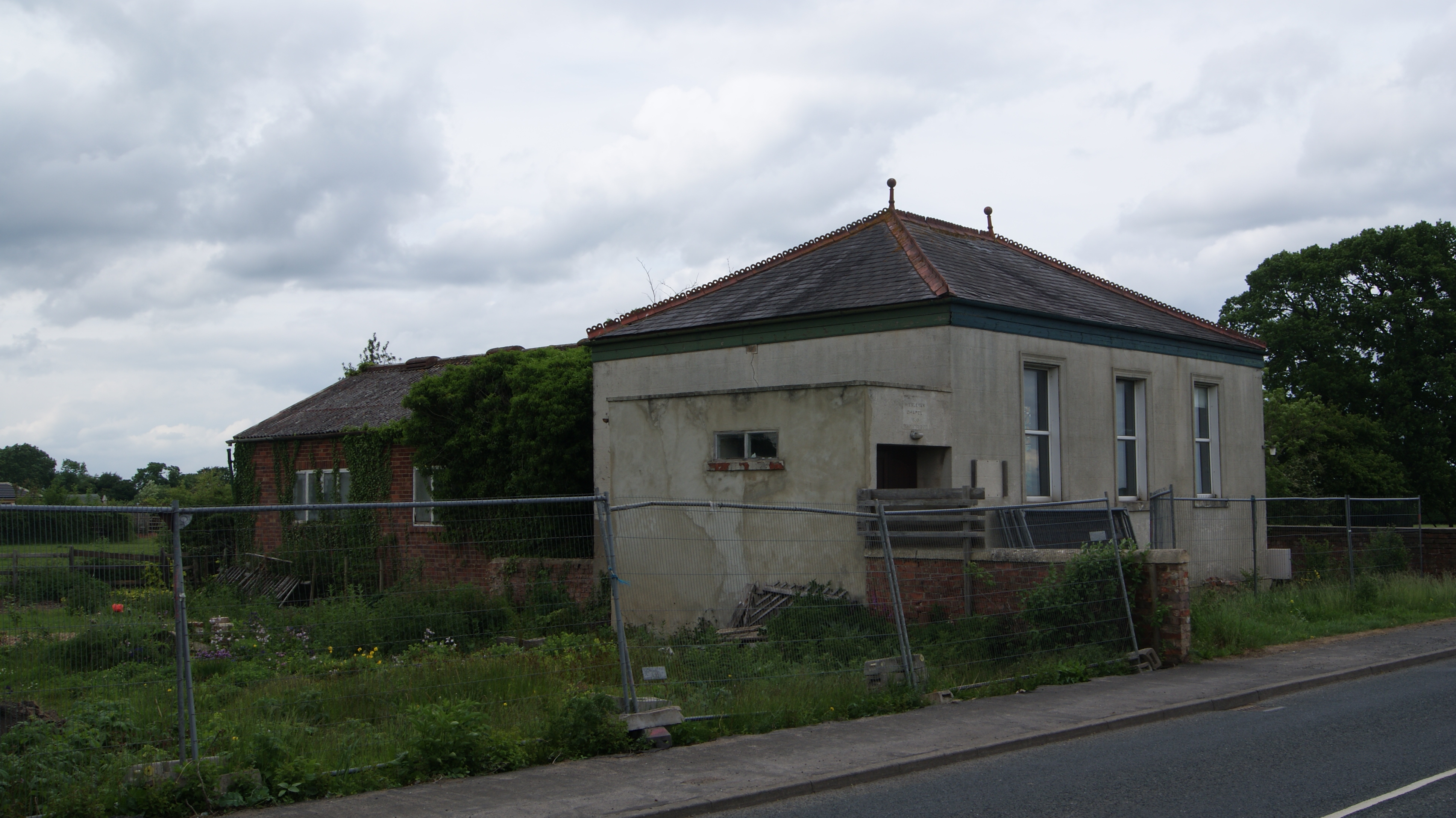 A disused (presumably) Wesleyan Chapel in Long Marston, North Yorkshire. Taken on Wednesday the 12th of June 2013.